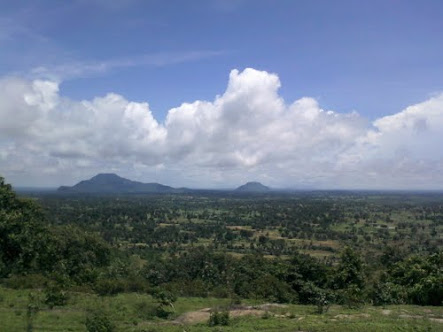 Chrm is heaven